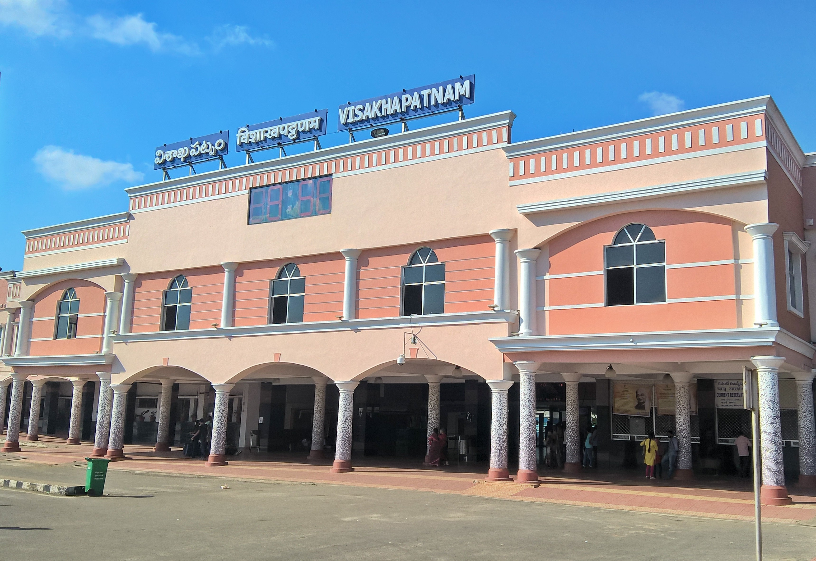 railways